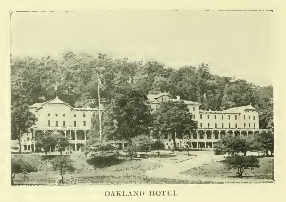 Photograph of Oakland Hotel in Oakland, Maryland, that appeared in Baltimore & Ohio Railroad Company's Book of the Royal Blue, April 1909, Vol. 12 No. 07, Page 10